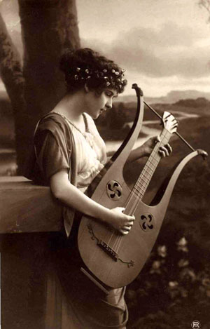 Reproduction of a postcard depicting a girl with a lyre-guitar